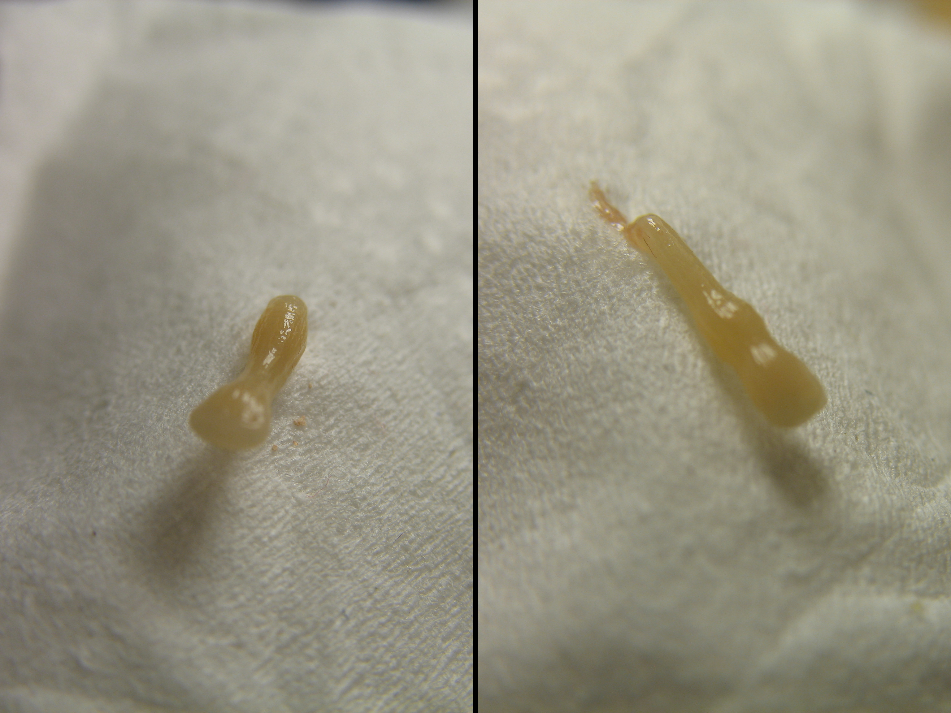 Macro photos of Dipylidium caninum.